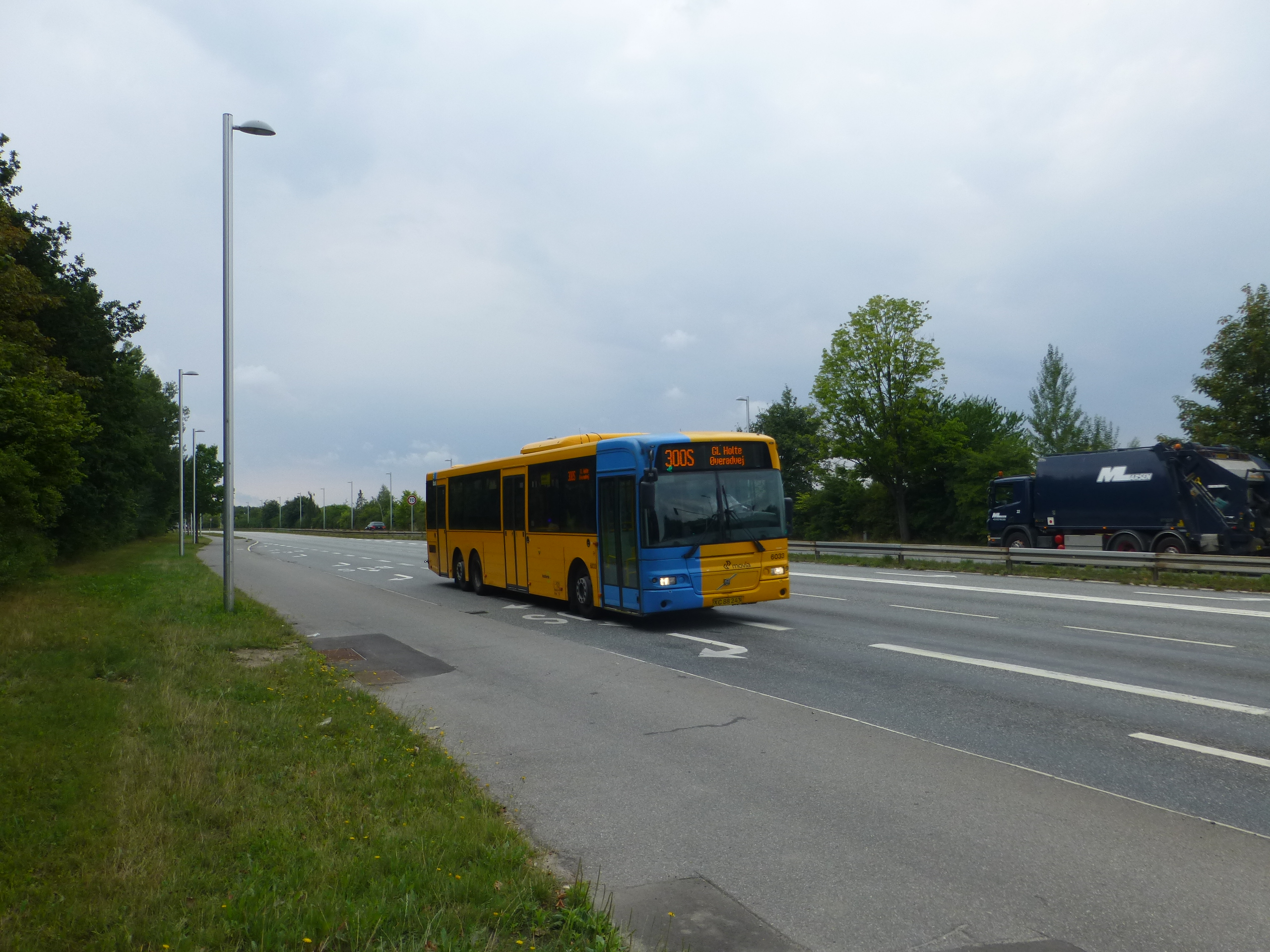 Movia bus line 300S on Nordre Ringvej, a part of Ring 3 around Copenhagen, at Ejby Industrivej.